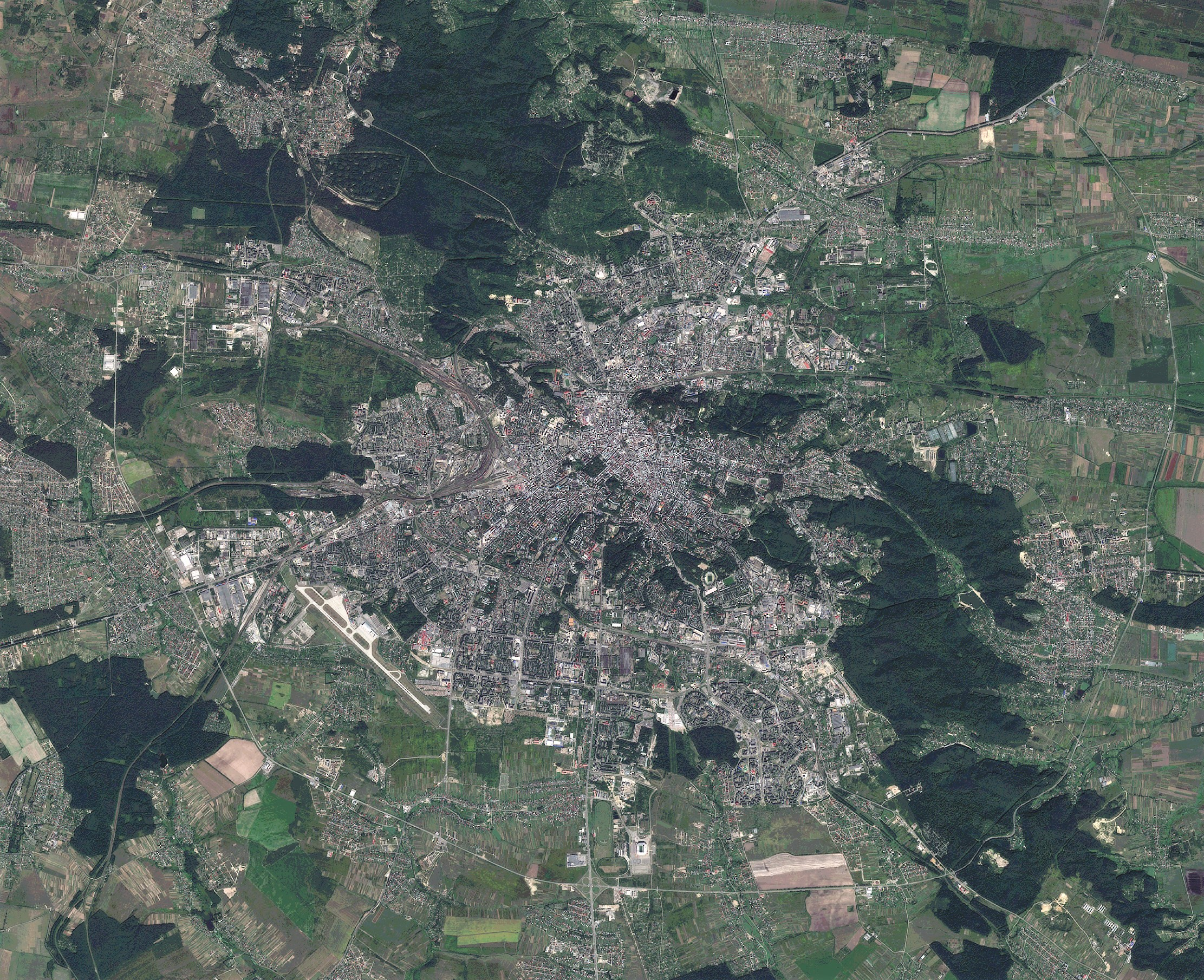 Lviv City, Ukraine, 30-AUG-2017,European Space Agency Sentinel-2 satellite image, pixel resolution 10 m, near natural colours